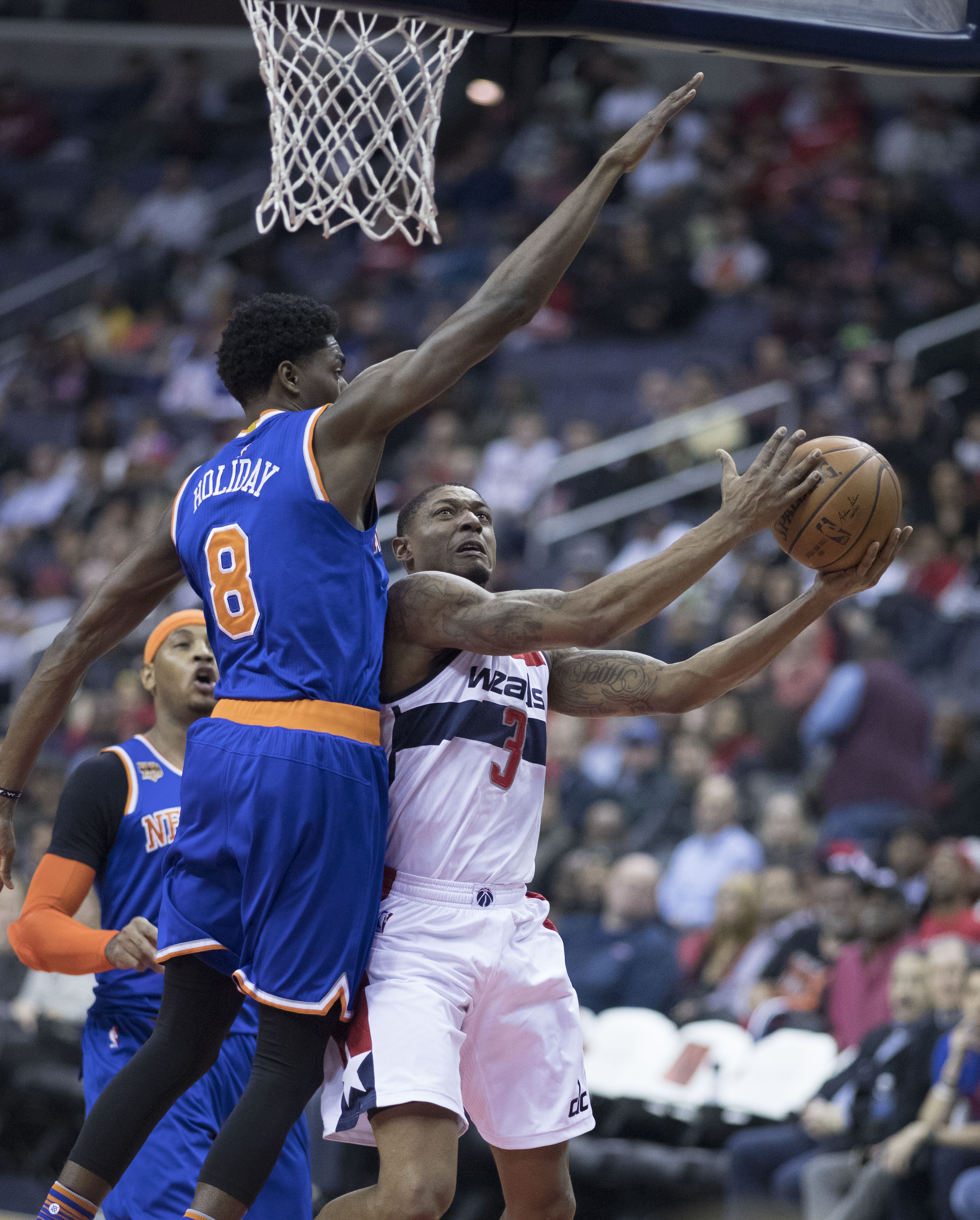 Knicks at Wizards 1/31/17